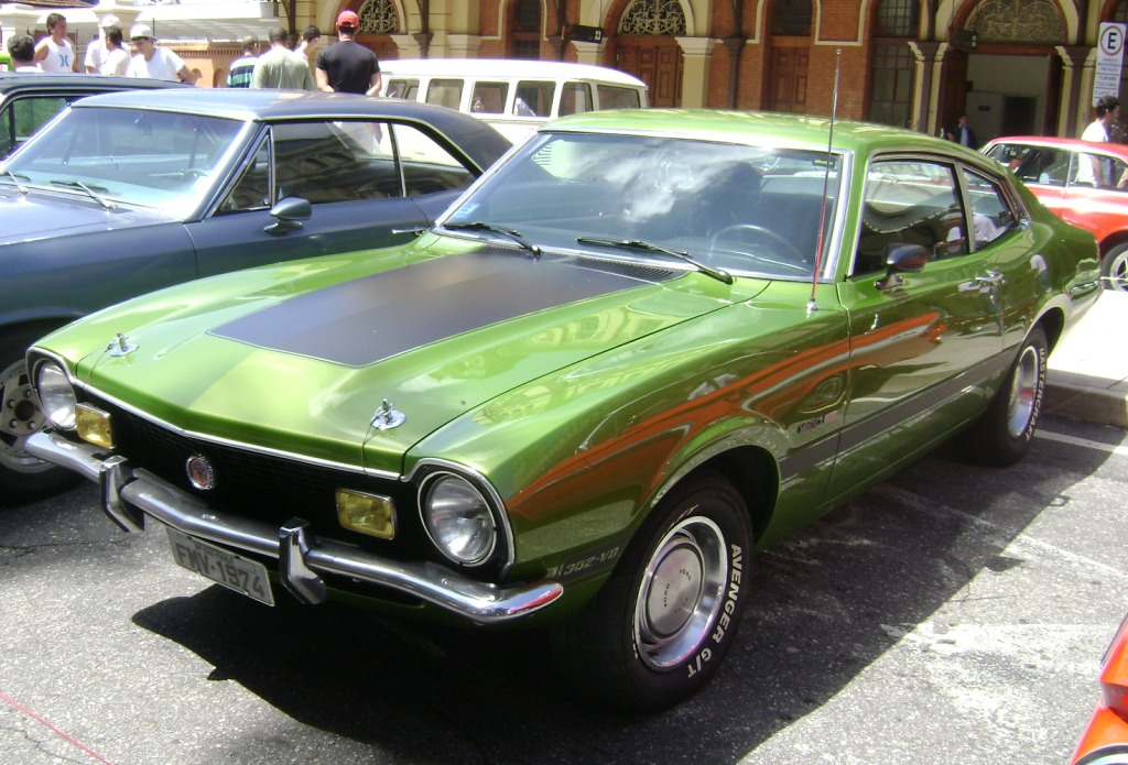 A 1974 brazilian Ford Maverick GT.